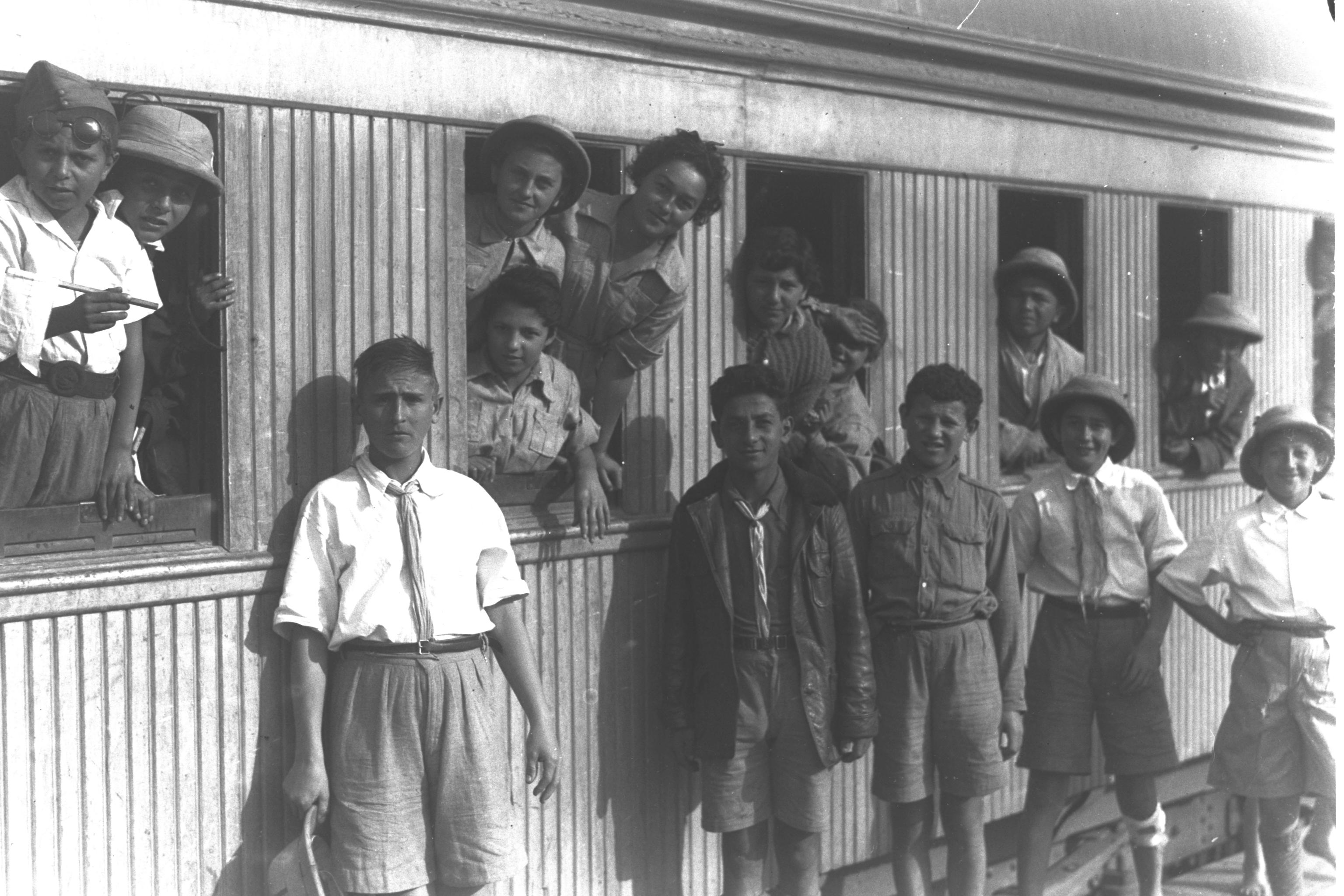 A GROUP OF "TEHERAN CHILDREN" IN FRONT OF A RAILWAY CARRIAGE IN ATLIT. קבוצה של "ילדי טהרן" מחוץ לקרון רכבת בעתלית.